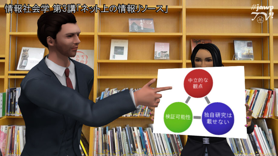 Example of Japanese TV program (educational program)